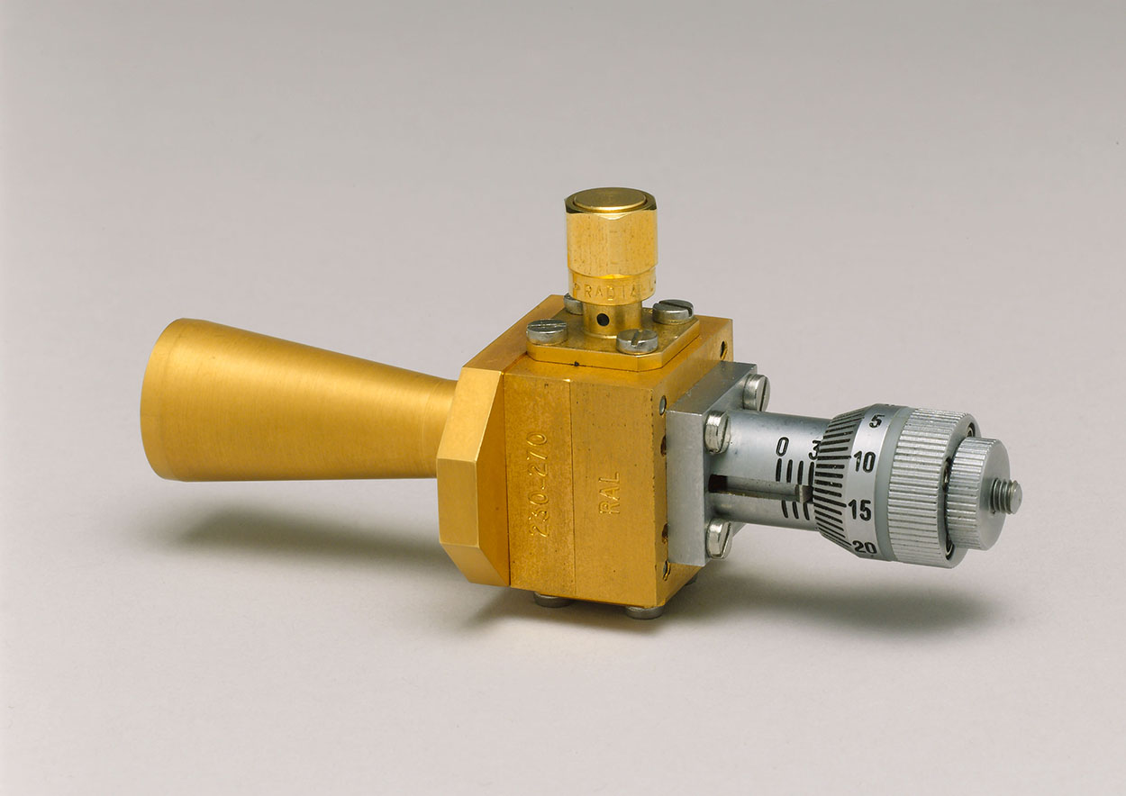 This sample radio receiver component was constructed at the Rutherford Appleton Laboratory, Chilton in Wiltshire. Operating at frequencies from 230-270 GHz, this VHF radio receiver is fitted to the James Clerk Maxwell Telescope (JCMT). Located at an altitude of over 4000m on the mountain of Mauna Kea in Hawaii, the JCMT observes the sky at sub-millimetre wavelengths. It is fitted with a high precision collecting dish 15m in diameter and housed inside an observing building with massive doors. In operation these retract, revealing the telescope hidden behind a huge Gore-Tex fabric sheet. This protects the dish by stopping any distortion caused by the wind while allowing the radio waves through.